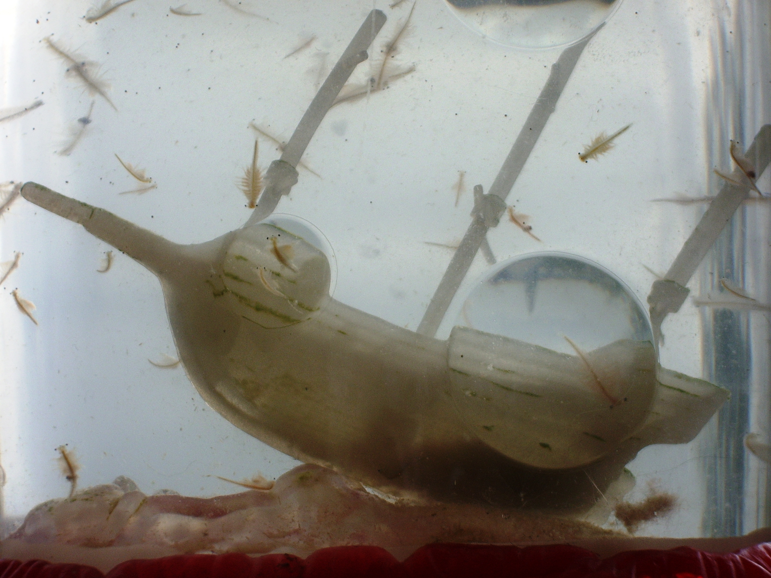 Sea-Monkies in aquarium.